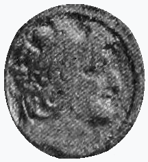 a coin of antiochus 11 from 93 BC